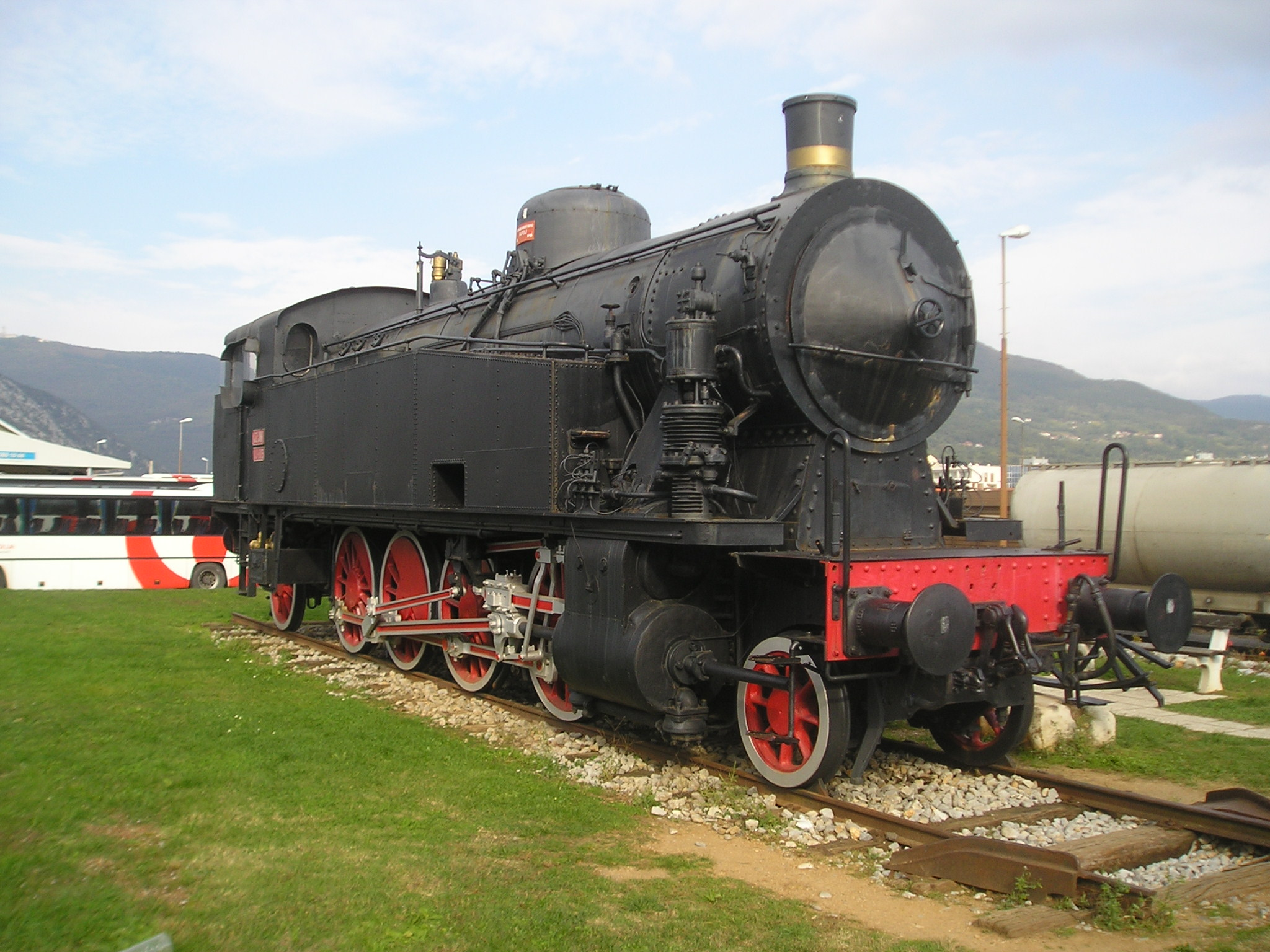 Standard gauge steam locomotive JŽ 118-005 (formerly FS 940.015) at the railway station in Nova Gorica, Slovenia. Length: 13.2 m, power: 720 kW, mass on duty: 87.2 t, max. speed: 65 km/h, steam pressure: 12 bar, diameter of driven wheels: 1370 mm. The locomotive was produced in 1922 by Officine Mechaniche Napoli, serial nr. 66. This class of locomotives was designed for mountaineous railways. Until 1945 they were in operation at the section between Trieste and Podbrdo, after the WW2 from Nova Gorica to Sežana, Ajdovščina and Jesenice, occasionally also between Jesenice and Ljubljana. Pospichal Lokstatistik. About the class 118 (FS 940) (in Slovenian only). More photos 1 and 2.